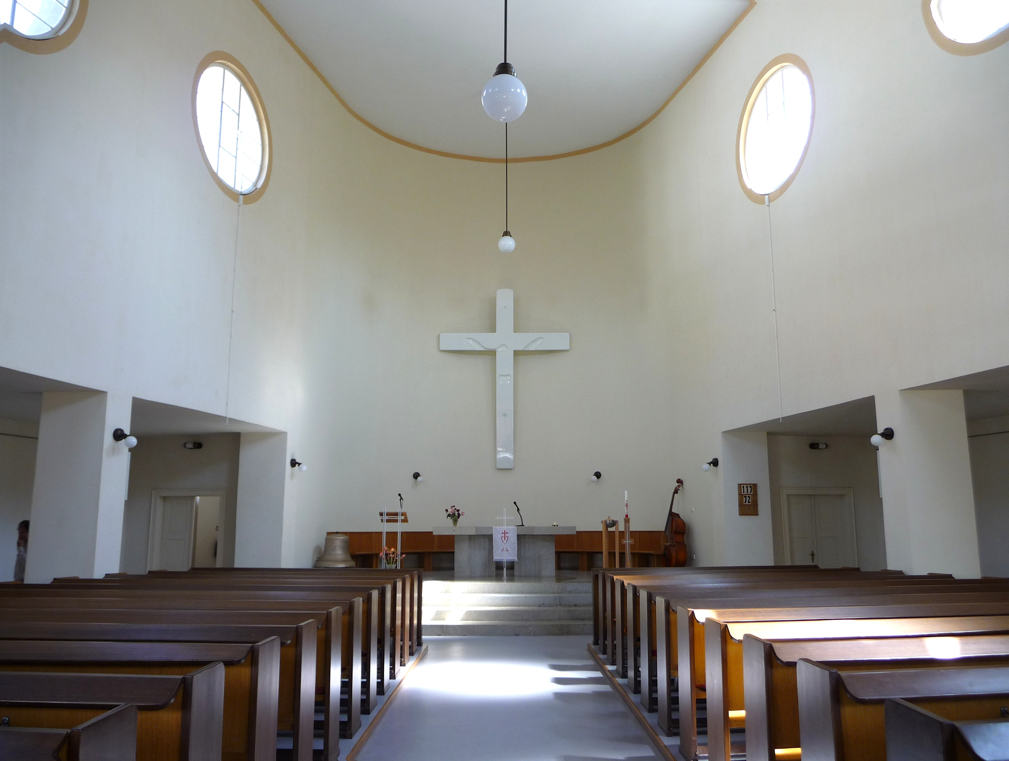 The Assembly of the Priest Ambrose in Hradec Králové (Hradec Králové Region, Czechia).